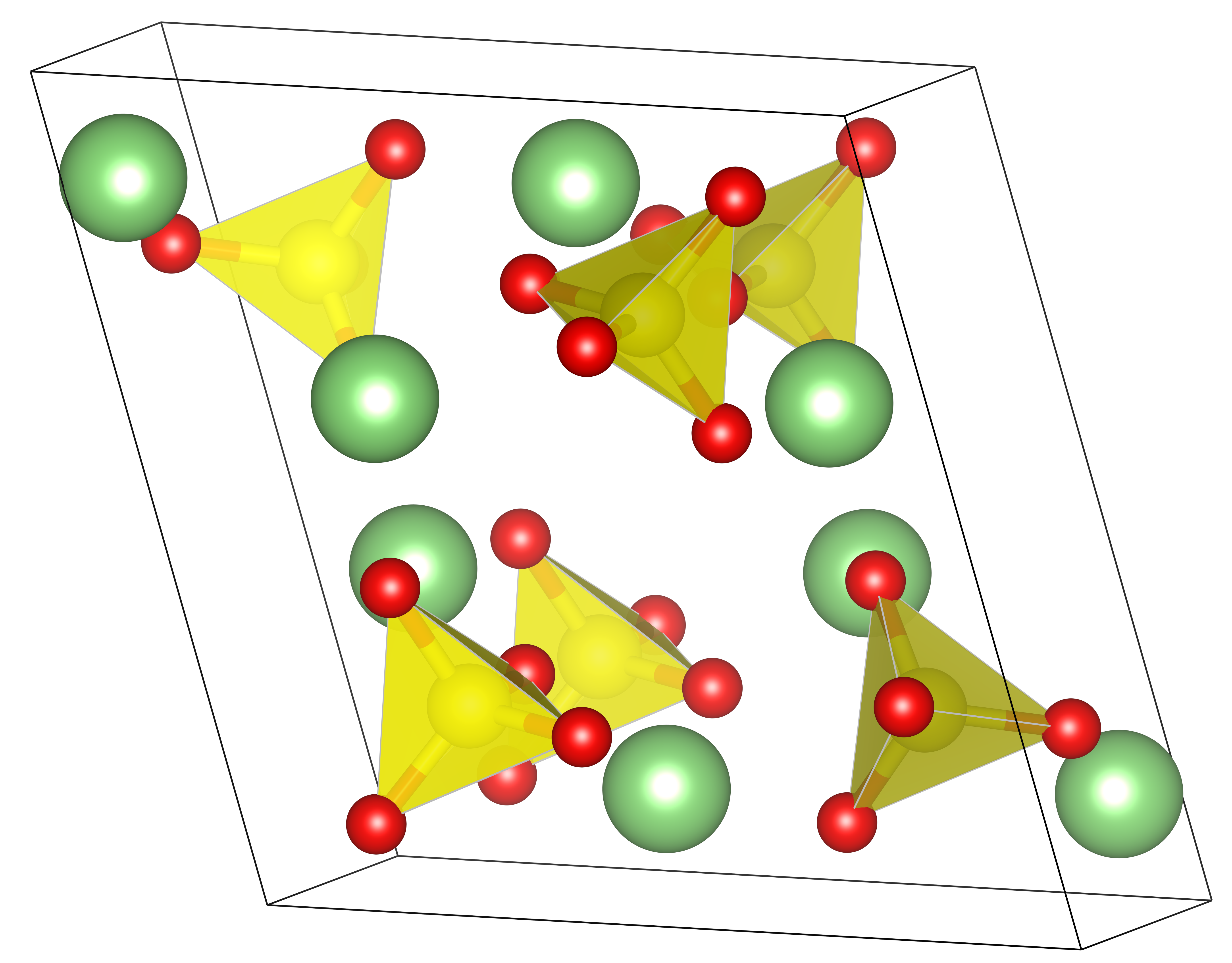 Unit cell of β-lithium sulfate (Li2SO4). Created with VESTA. Source of crystal structure